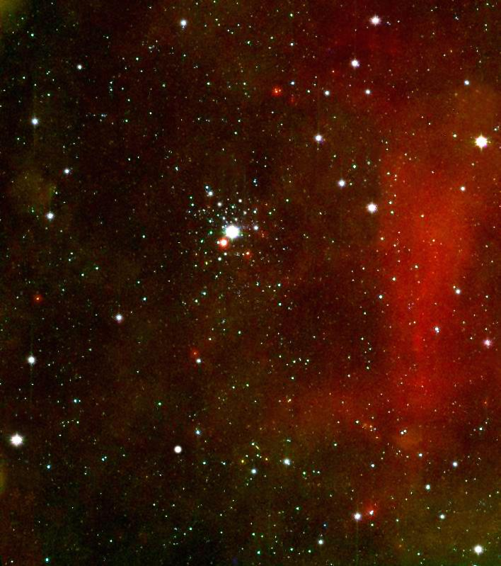 Original caption of image: "This photograph from NASA's Spitzer Space Telescope shows the young star cluster NGC 2362. By studying it, astronomers found that gas giant planet formation happens very rapidly and efficiently, within less than 5 million years, meaning that Jupiter-like worlds experience a growth spurt in their infancy."